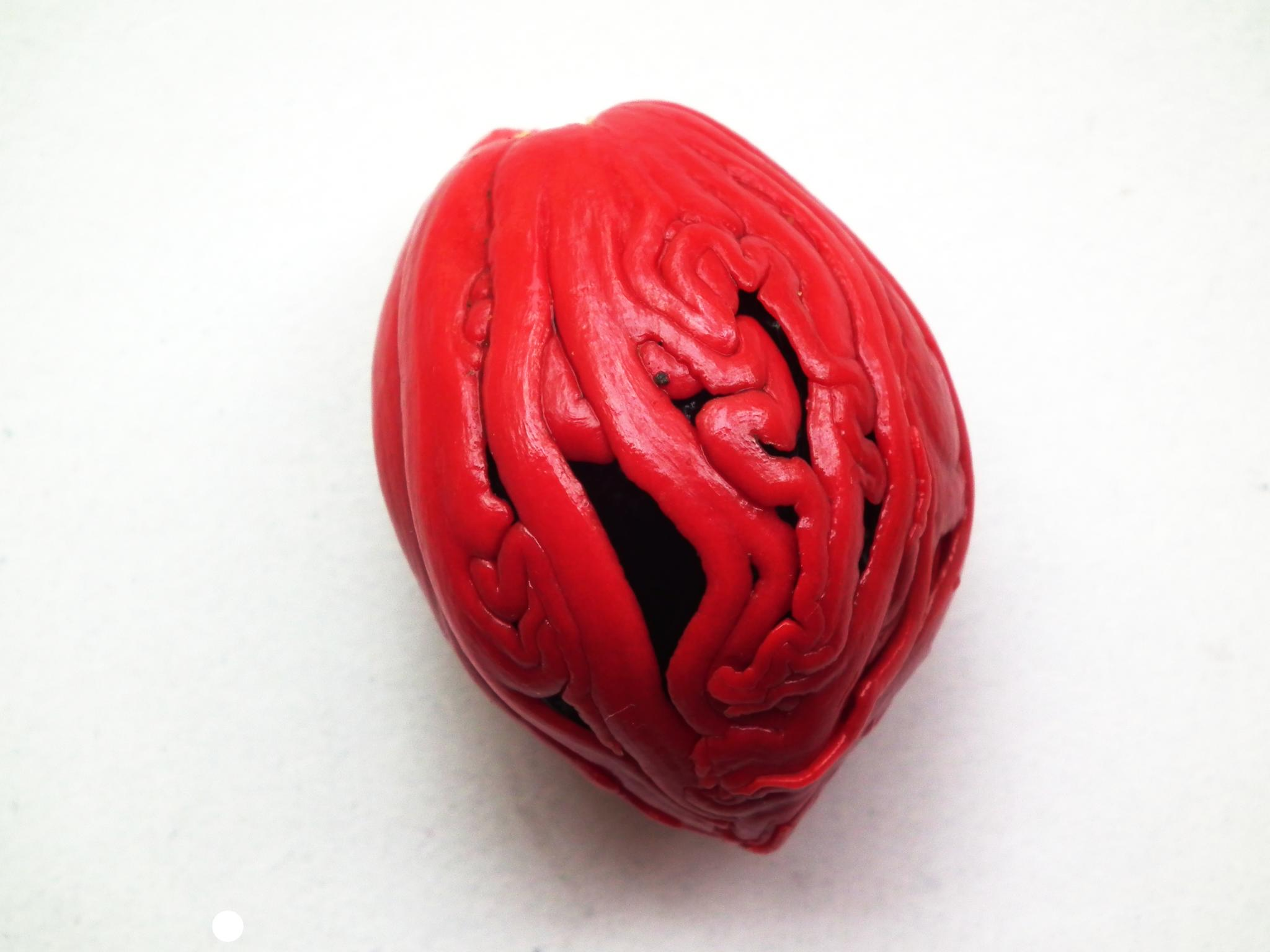 In Indian cuisine, nutmeg is used in many sweet as well as savoury dishes (predominantly in Mughlai cuisine). It is known as jaiphal in most parts of India, In Kannada, nutmeg is called 'Jaayi-kaayi/Jaaipatre' "jathikai"(சாதிக்காய்) in Tamil and as jatipatri(ജാതിപത്രി) and jathi (ജാതിക്കായ) seed in Kerala. In Telugu, nutmeg is called jaaji kaaya (జాజి కాయ) and mace is called jaapathri (జాపత్రి). It is also added in small quantities as a medicine for infants (janma ghutti) It may also be used in small quantities in garam masala. Ground nutmeg is also smoked in India.